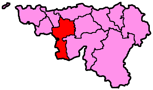 Location of the constituency of Charleroi-Thuin in Wallonia